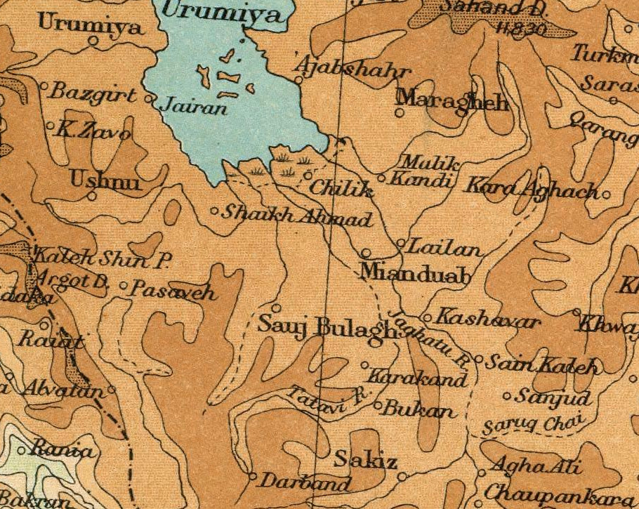 Persia. The Edinburgh Geographical Institute, John Bartholomew & Co. "The Times" atlas. (London: The Times, 1922)